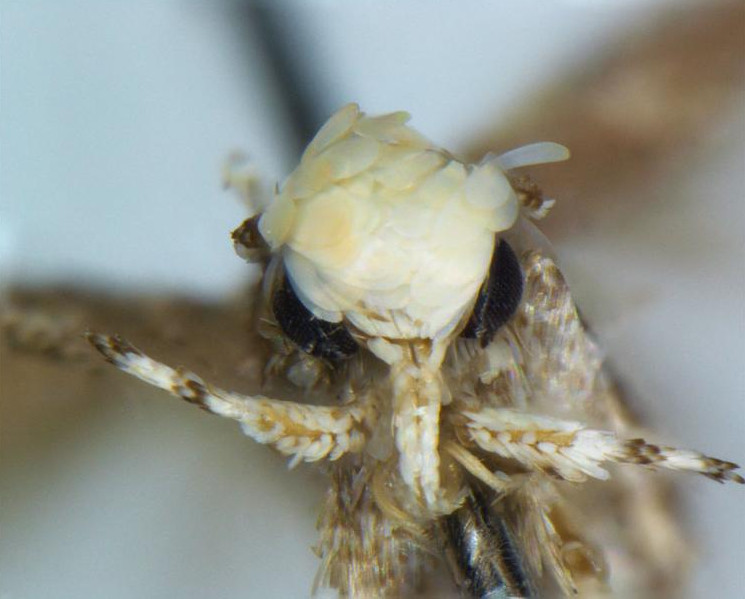 picture of a moth species